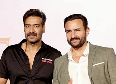 Indian actors Ajay Devgn (left) and Saif Ali Khan at an event for their film Tanhaji (2020)